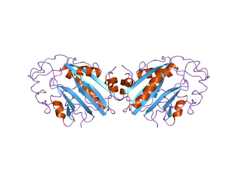 Cartoon representation of the molecular structure of protein registered with 1smn code.